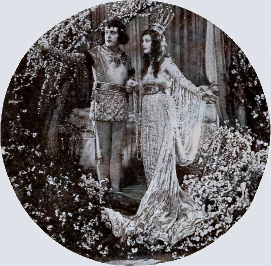 Still from the American romantic comedy Enchantment (1921) with Forrest Stanley and Marion Davies, on page 62 of the September 17, 1921 Exhibitors Herald.